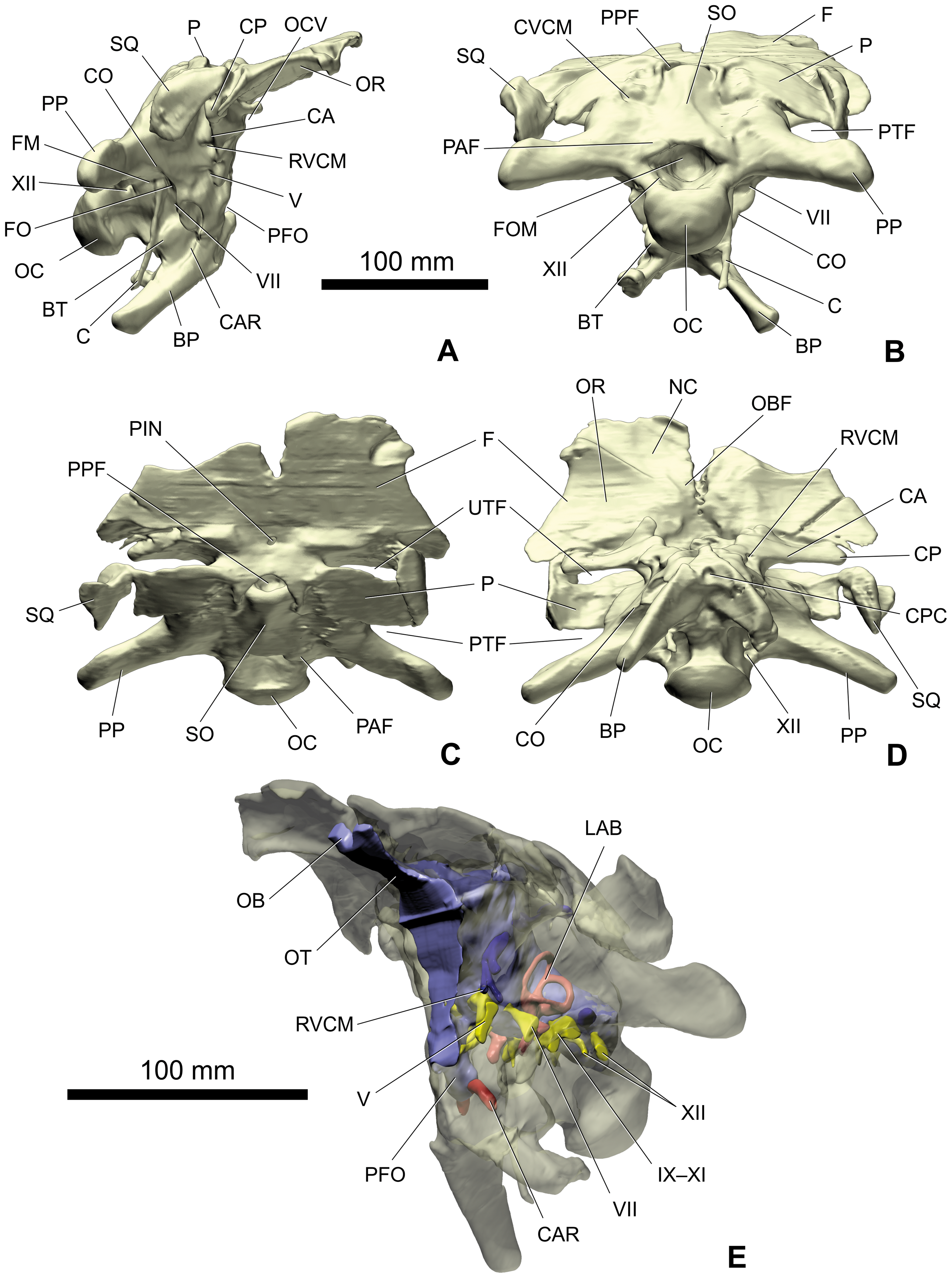 Volume-rendered CT images of the braincase of the sauropod dinosaur Spinophorosaurus nigerensis (GCP-CV-4229) from the Jurassic of Aderbissinat, Niger; opaque and unfilled in right lateral (A), caudal (B), dorsal (C), and ventral (D) views and semi-transparent with the endocast and associated structures in oblique view (E). Abbreviations in subfigure E and Figure 4: CAR, carotid artery; CBL, cerebellum; CE, cerebrum; CVCM, dorsal-head/caudal-middle-cerebral vein system; DE, dural expansion; IX, glossopharyngeal nerve; IX–XI, glossopharyngeal and vagoaccessory nerves; jug, jugular vein; LAB, labyrinth; MO, medulla oblongata; OB: olfactory bulb; OT, olfactory tract; pd, perilymphatic duct; PFO, pituitary fossa; RVCM, rostral middle cerebral vein; SIN, blind dural venous sinus of hindbrain; V, trigeminal nerve; VI, abducens nerve; VII, facial nerve; X–XI, vagoaccessory nerve; XII, hypoglossal nerve.